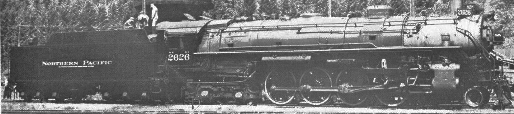 Northern Pacific 4 page brochure detailing its locomotives of past and (then) present. This is the entire brochure. This is a photo of the Timken 1111, an experimental steam engine built for the Timken Roller Bearing Company by ALCO. The locomotive passed through many railroads as a demonstrator model, but when it got to the Northern Pacific, it suffered damage while pulling NP's North Coast Limited. Timken appealed to NP to repair and return the locomotive, but NP's policy was to only repair locomotives it owned. NP then purchased the locomotive from Timken. This locomotive was in service to NP from 1933 until 1957. The Timken Company wanted to re-purchase the locomotive from NP to save it from being scrapped. Before the railroad and the bearing company could reach agreement, Timken 1111 was scrapped.